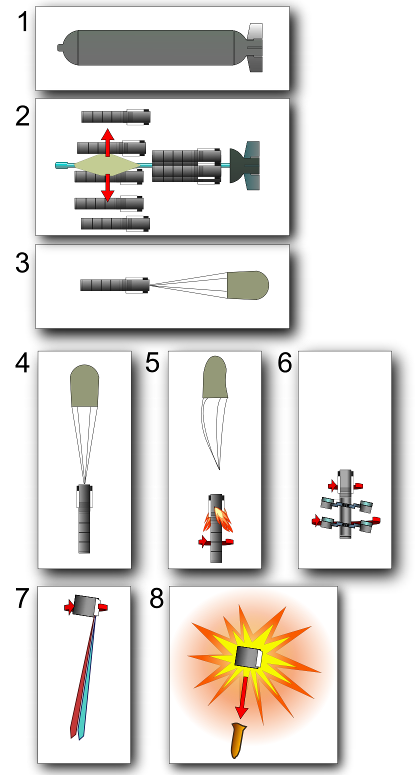 CBU-97 SFW (8 steps attacking process) no text